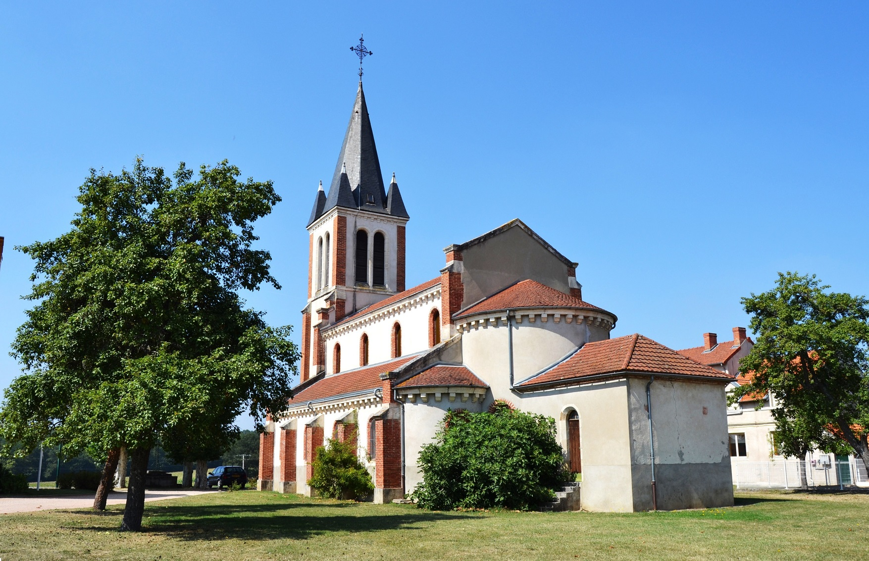 L'église